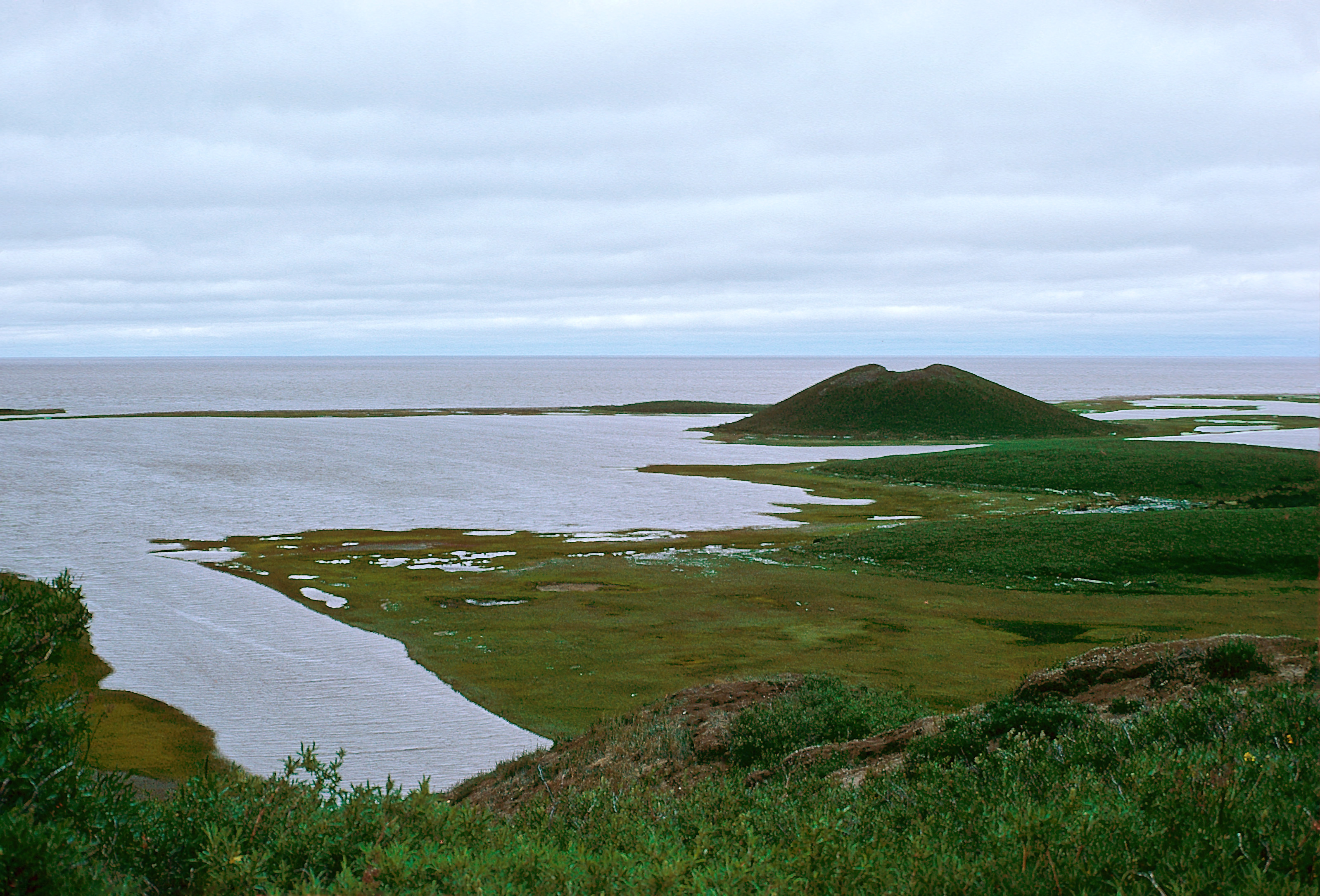 View from top of a pingo with thick peat layers towards another pingo within a partly drained lake. In the background: the Arctic Ocean (near Tuktoyaktuk). Photo: Lorenz King, July 20, 1975